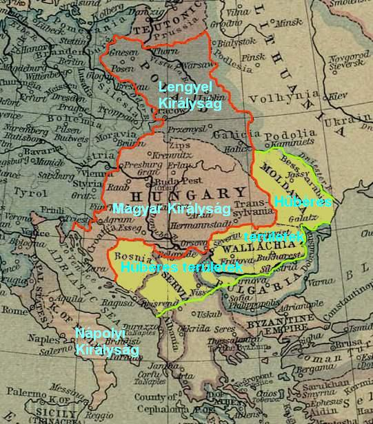 Poland and Hungary in 1360